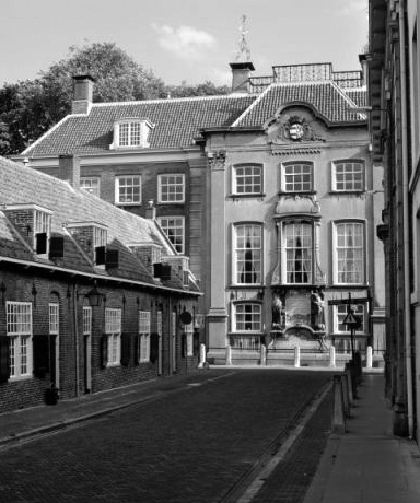 Building of the "Fundatie", Utrecht, located in the Agnietenstraat